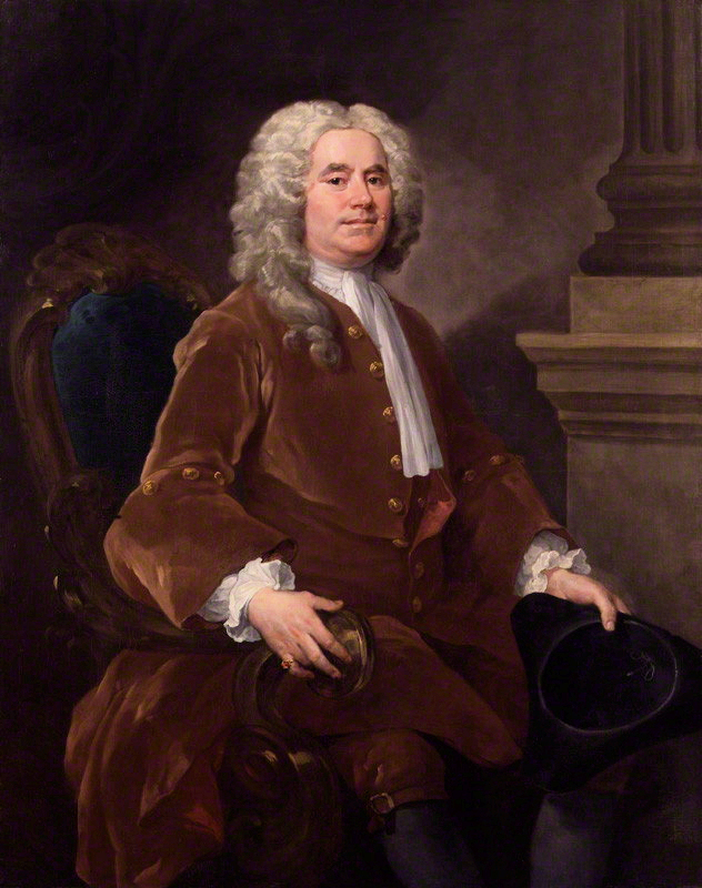 Portrait of William Jones (1675-1749), mathematician from Wales.